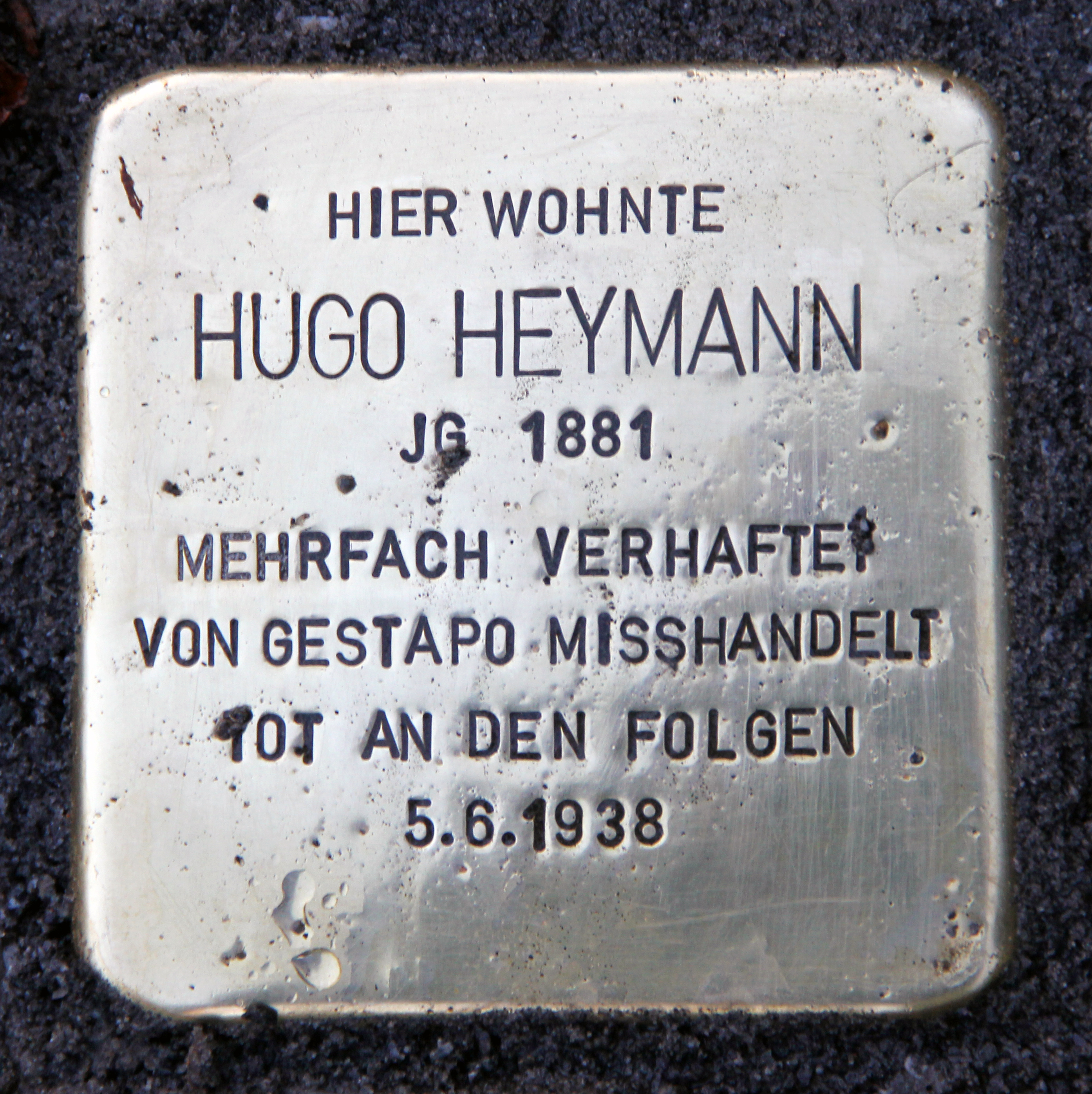 "Stolperstein" (stumbling block), Hugo Heymann, Berkaer Straße 31, Berlin-Schmargendorf, Germany